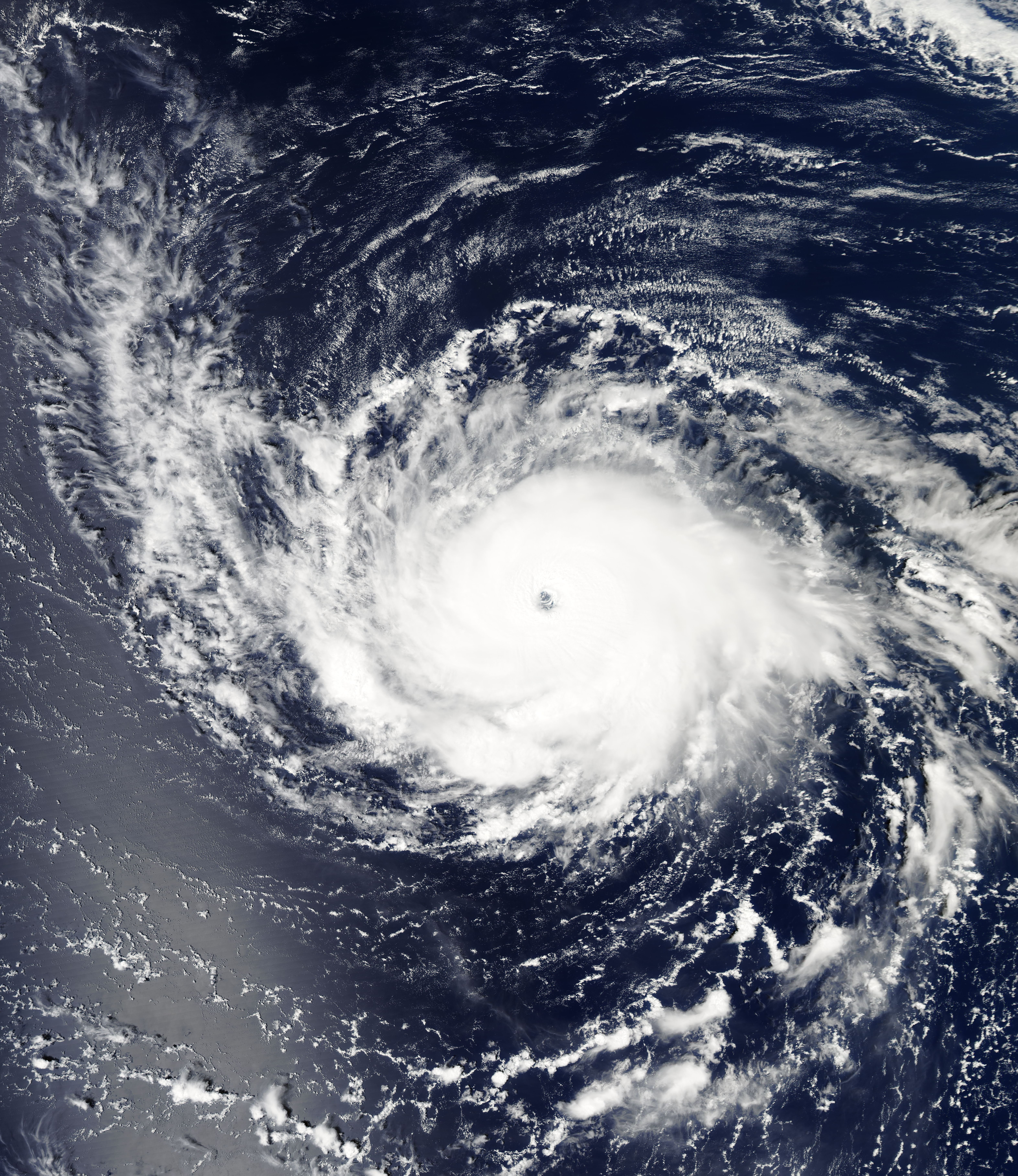 Navy image of Typhoon Yagi with 115kt winds.